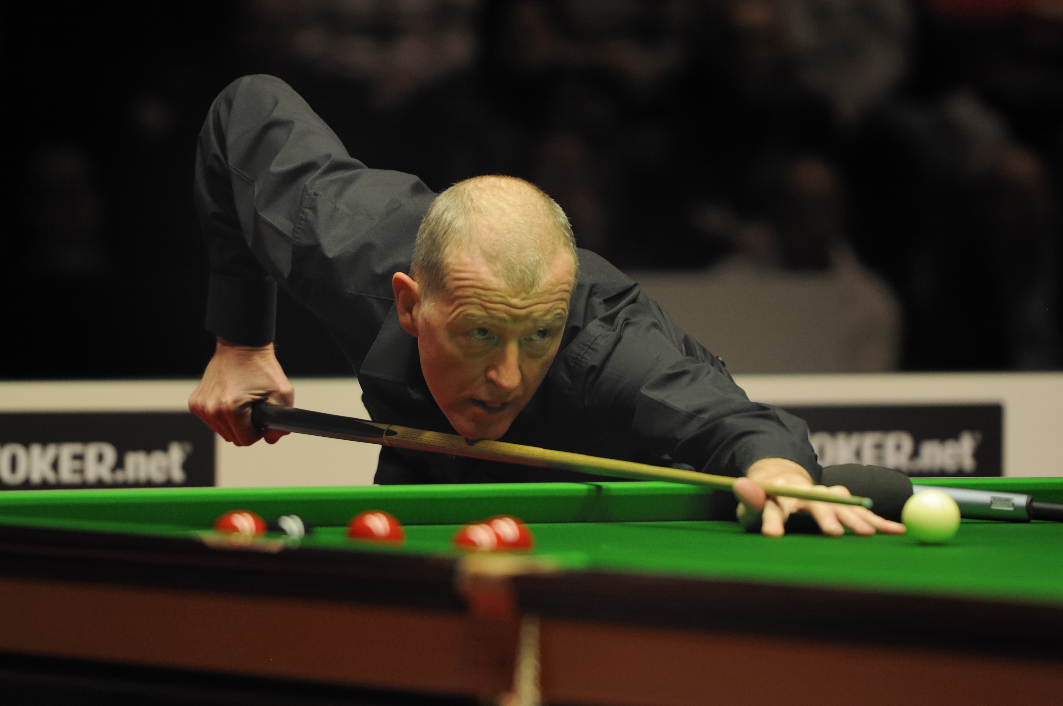 Picture taken in Berlin during the Snooker German Masters in 2011. Steve Davis.